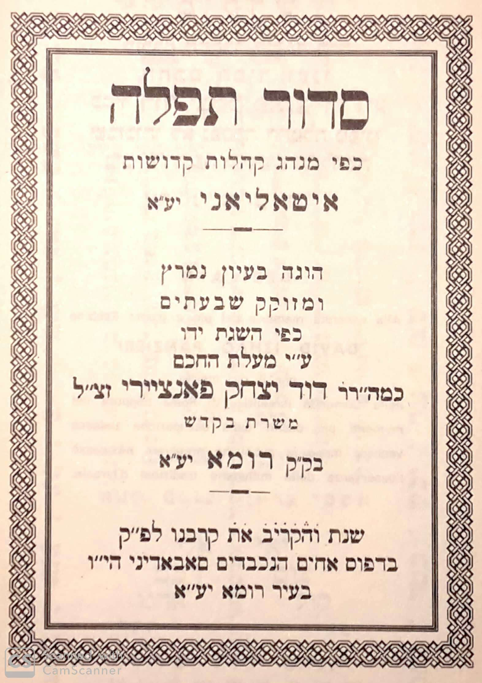 Published in Rome, in memory of Rabbi David Izhaq Panzieri.